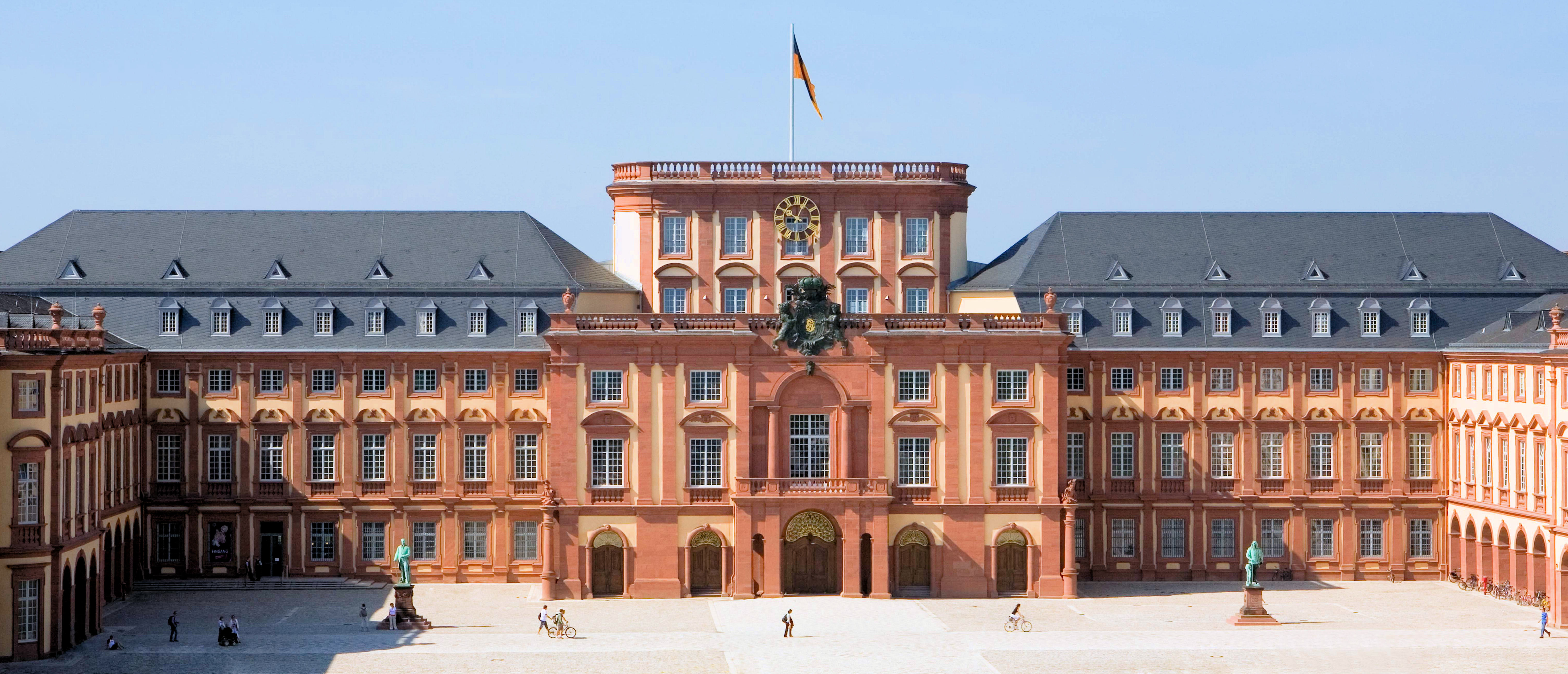 Mannheim’s baroque palace (originally built 1720 – 1760) in 2007, today primarily used by the University of Mannheim.